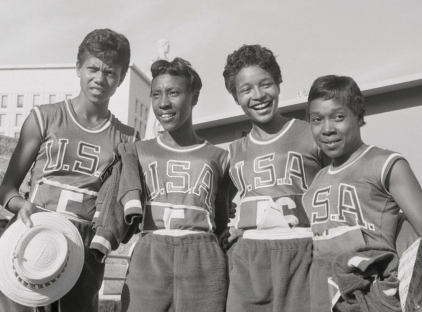 Left-right: Wilma Rudolph, Lucinda Williams, Barbara Jones and Martha Hudson at the Rome Olympics